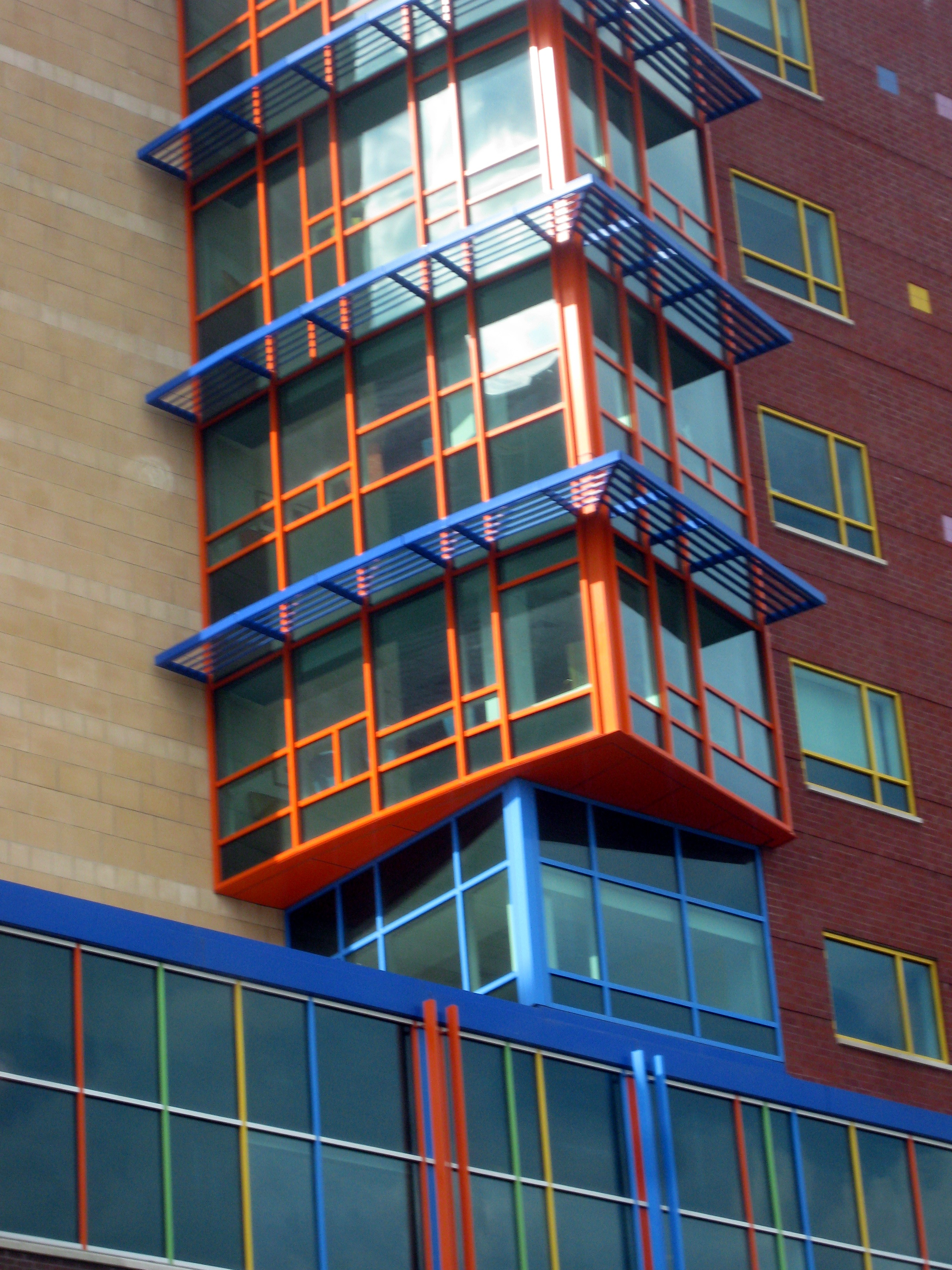 photo credit: dovertaylor